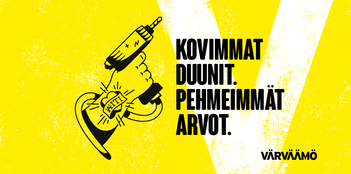 Värväämö's slogan